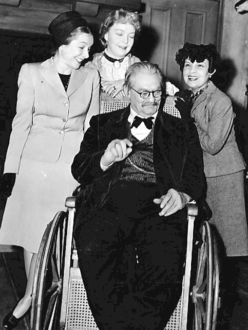 Photo of Helen Hayes and Anita Loos visiting Lillian Gish and Lionel Barrymore on the set of the film Duel in the Sun (1946). From left: Helen Hayes, Lillian Gish, Anita Loos, and Lionel Barrymore.